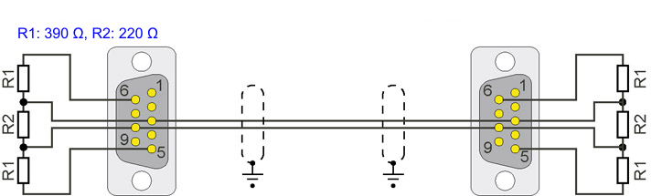 Profibus RS 485 wiring (with terminate plugs) between two stations